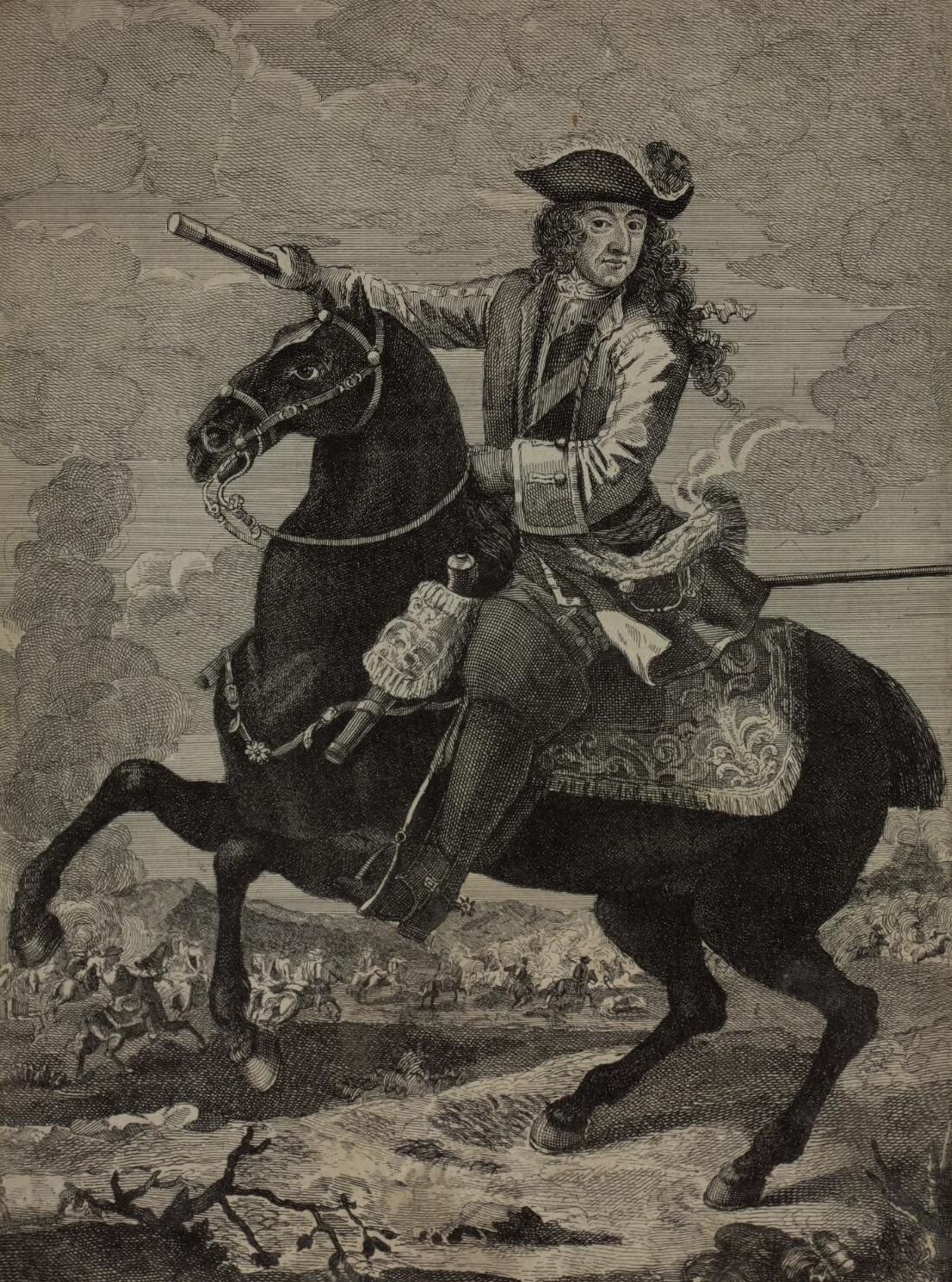 A portrait from the Welsh Portrait Collection at the National Library of Wales. Depicted person: John Cutts, 1st Baron Cutts – British soldier and author